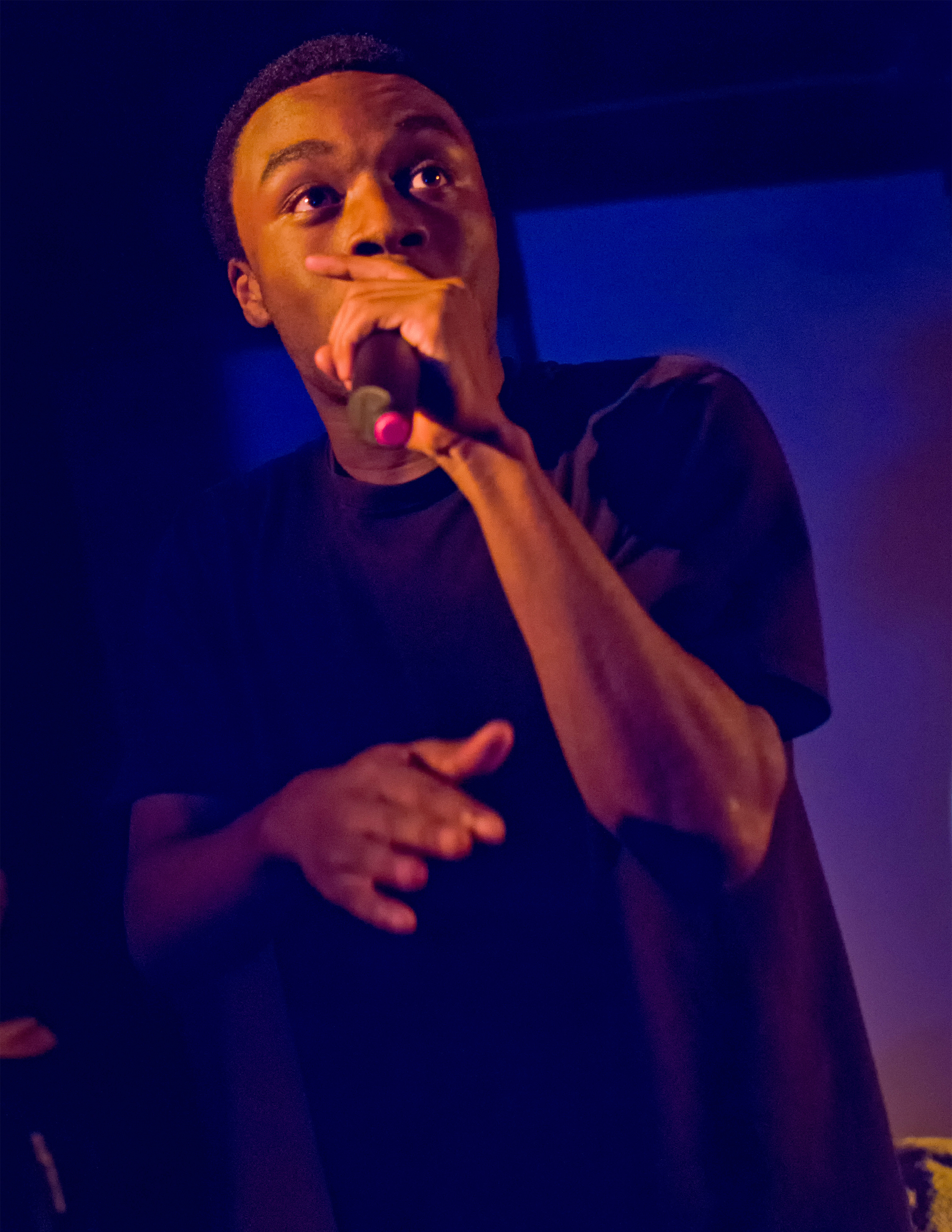 Marcus Orelias performing at Buriel Clay Theater 2014